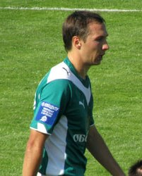 Pavlo Khudzik